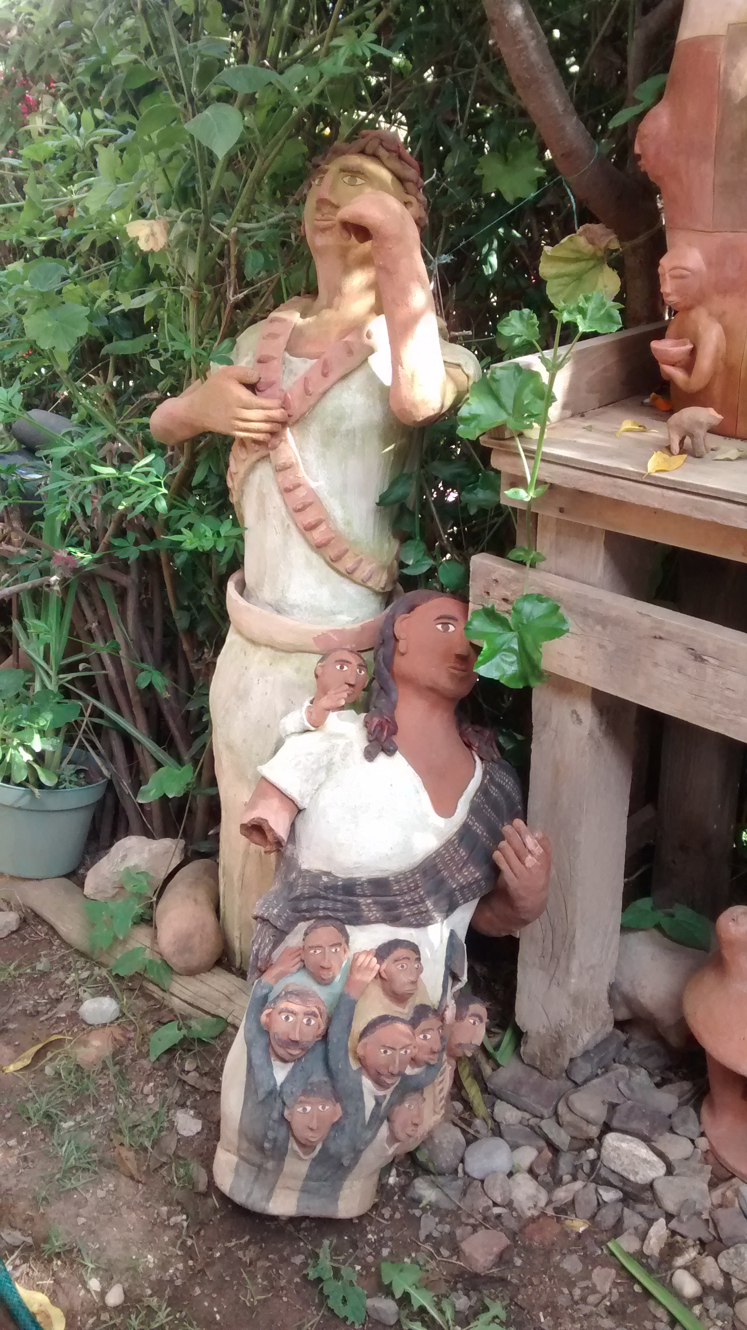 Artwork by Maricela Gómez